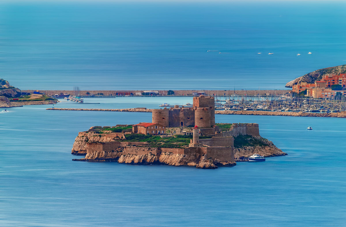 photographer credit: Marian Baciu